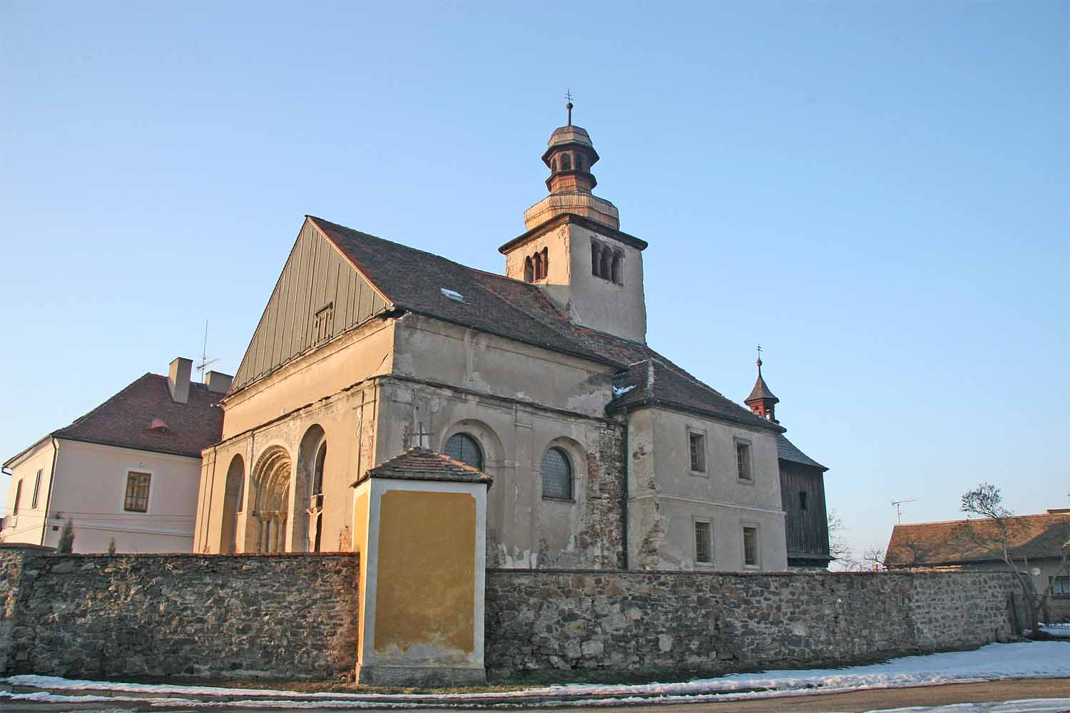 Romanesque church of St Procopius in Záboří nad Labem